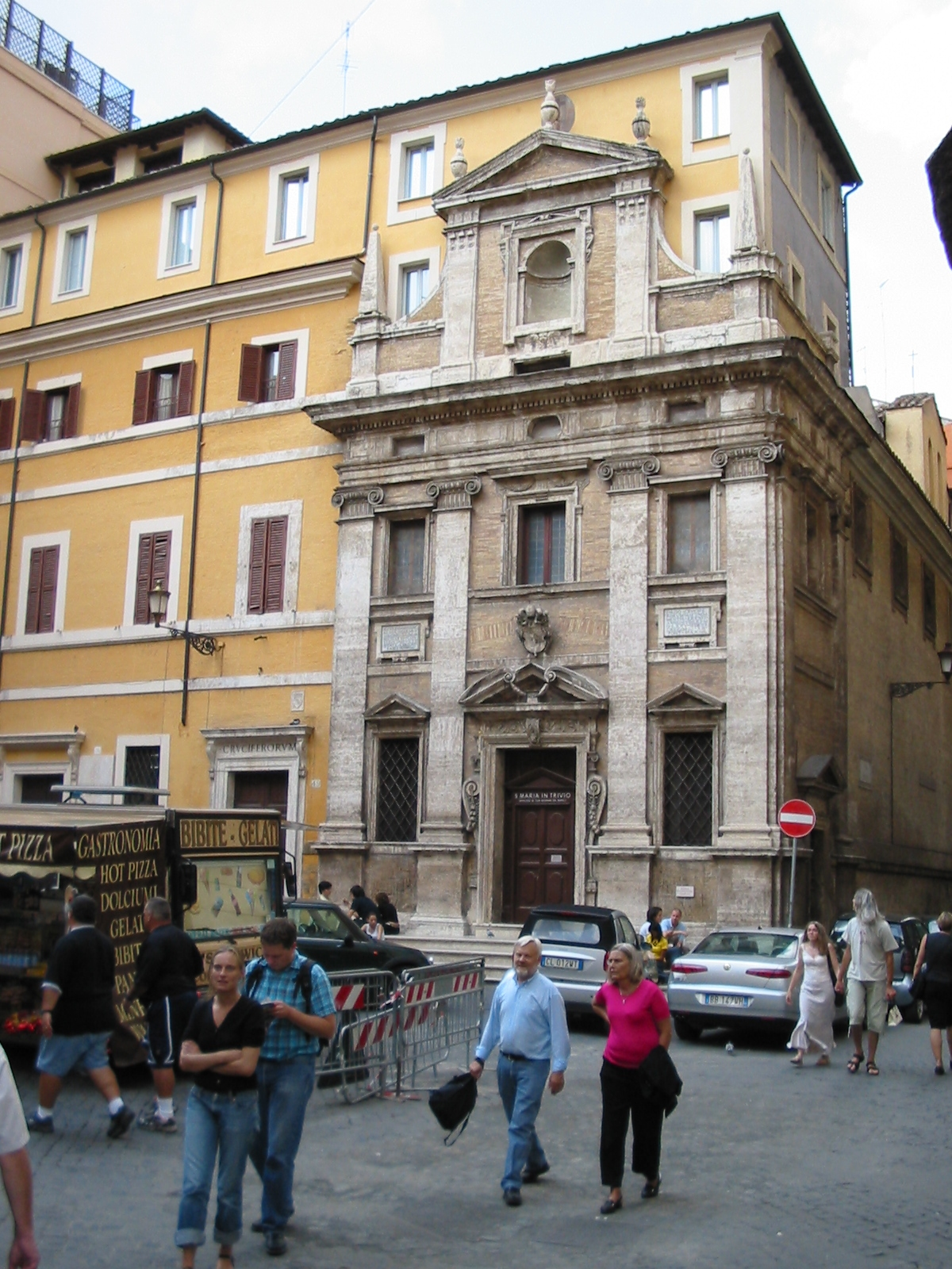 This is a picture of Piazza dei Crociferi, a square in Rome. I took this picture by myself on the 25th September 2005.